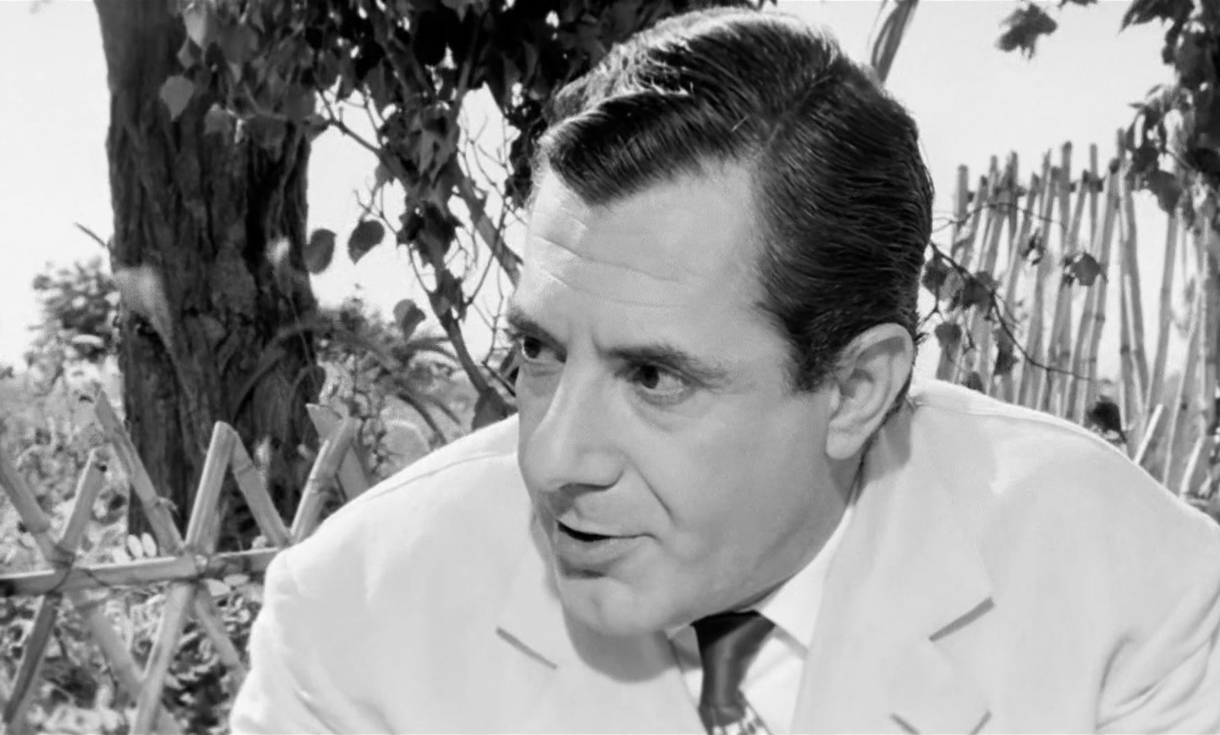 film frame from the Italian movie Adua e le compagne